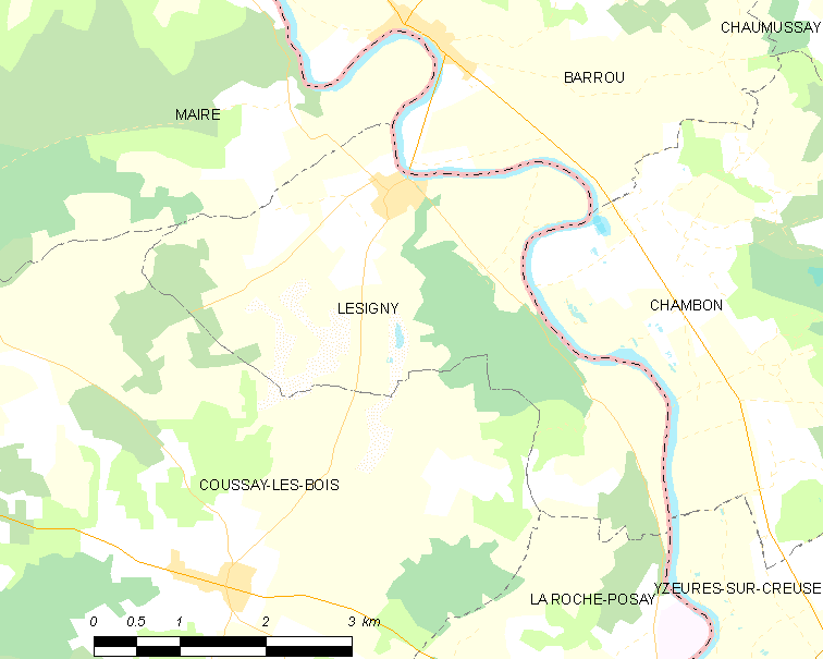 Map of French municipality Lésigny